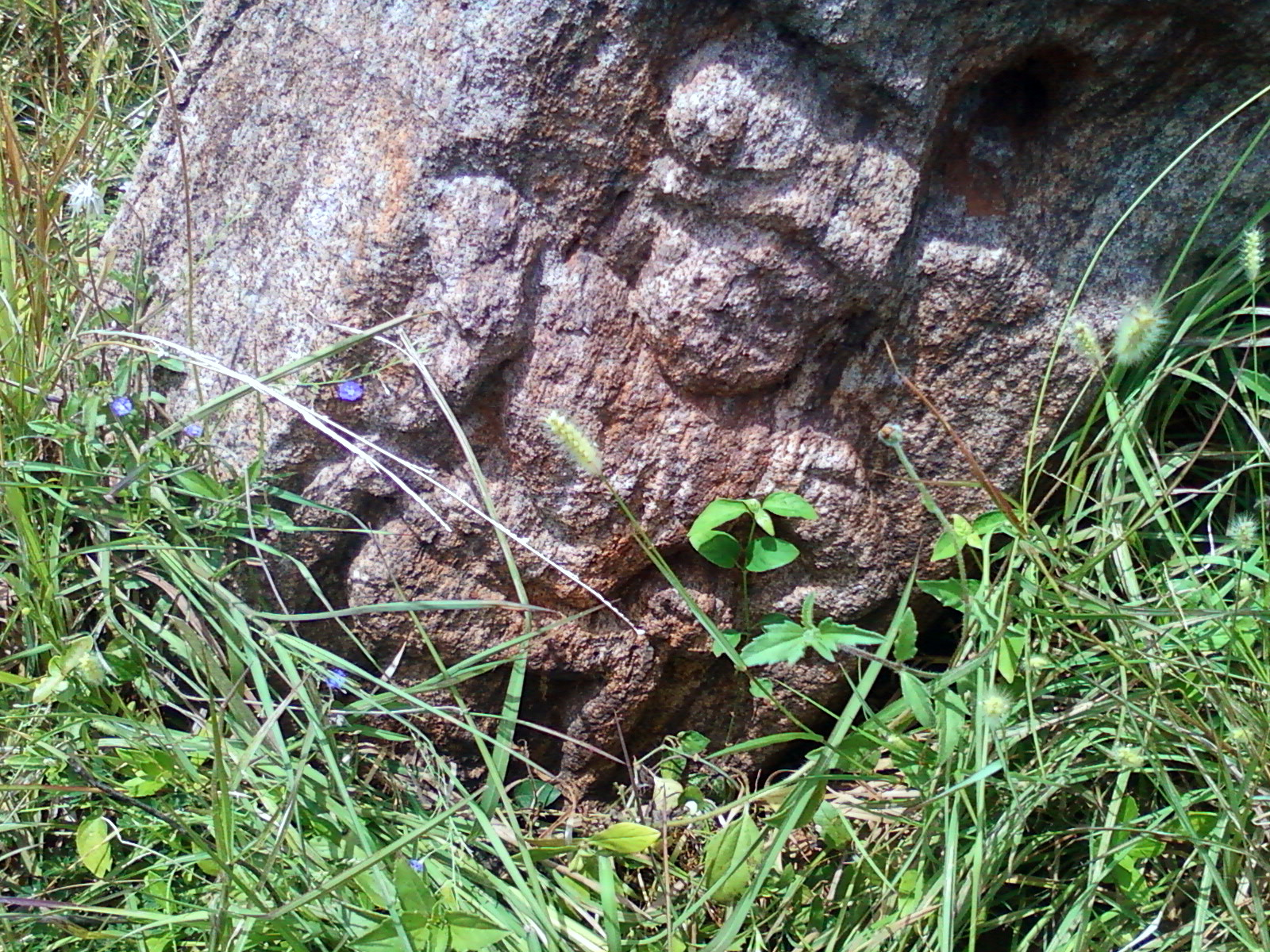 An Yaksha Sculpture Relief at Pavurallakonda Buddhist Monastery Remnant Site near Bheemunipatnam of Andhra Pradesh